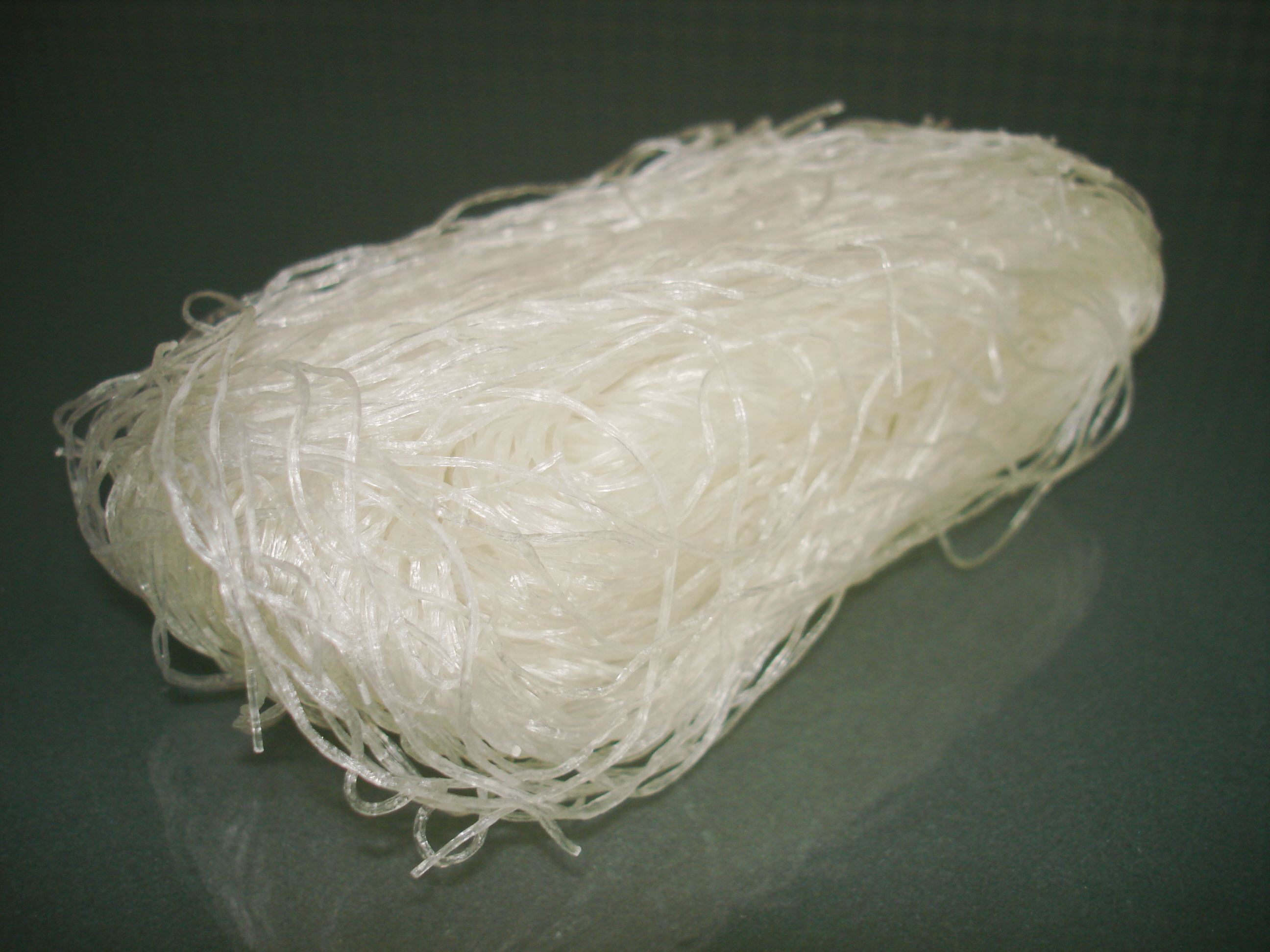 Chinese vermicelli, uncooked